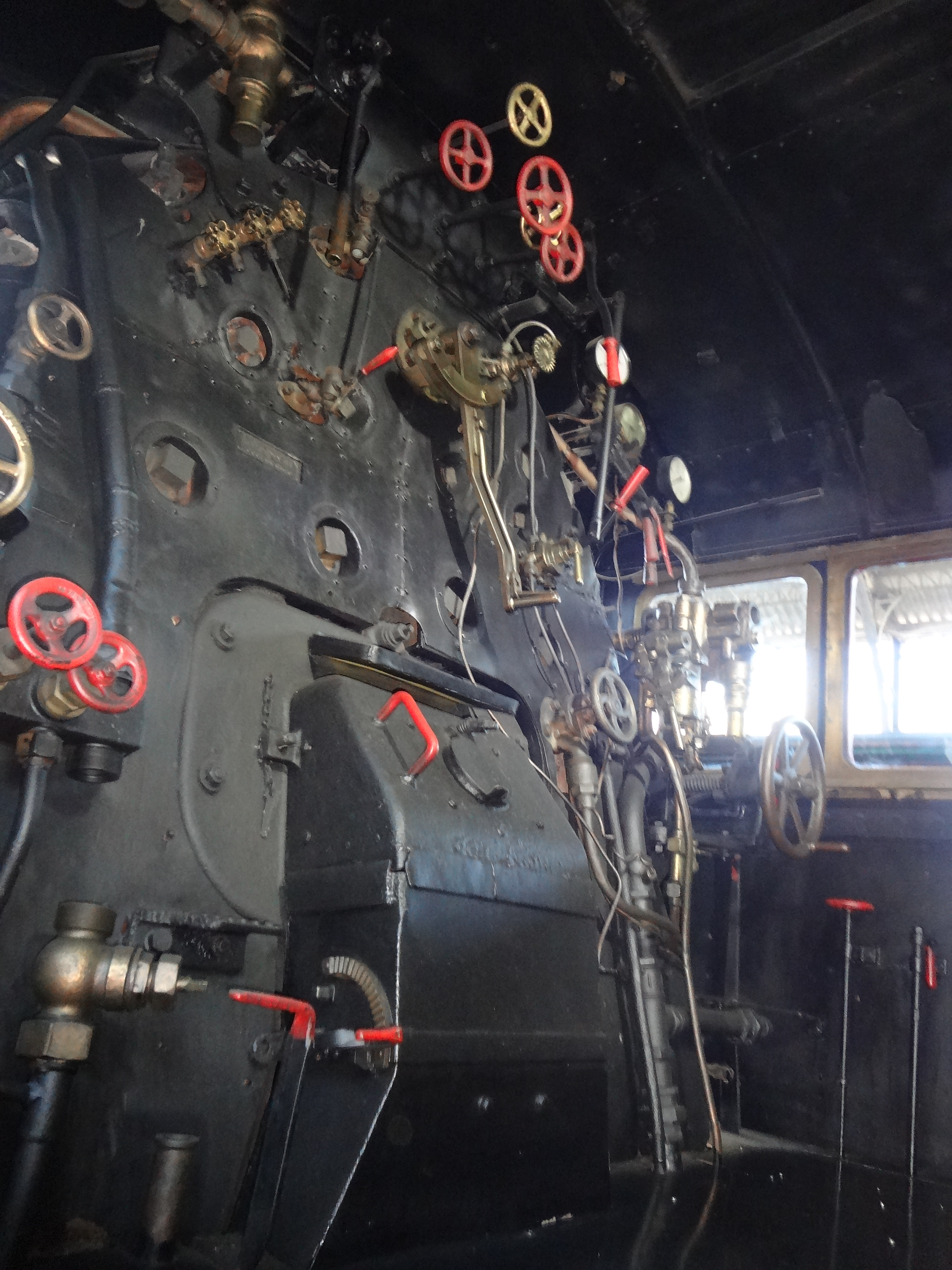 Railway Museum, Museo del Ferrocarril Rolling stock at the Museo del Ferrocarril (Madrid) Author, David Adam Kess Madrid Spain Photography by David Adam Kess